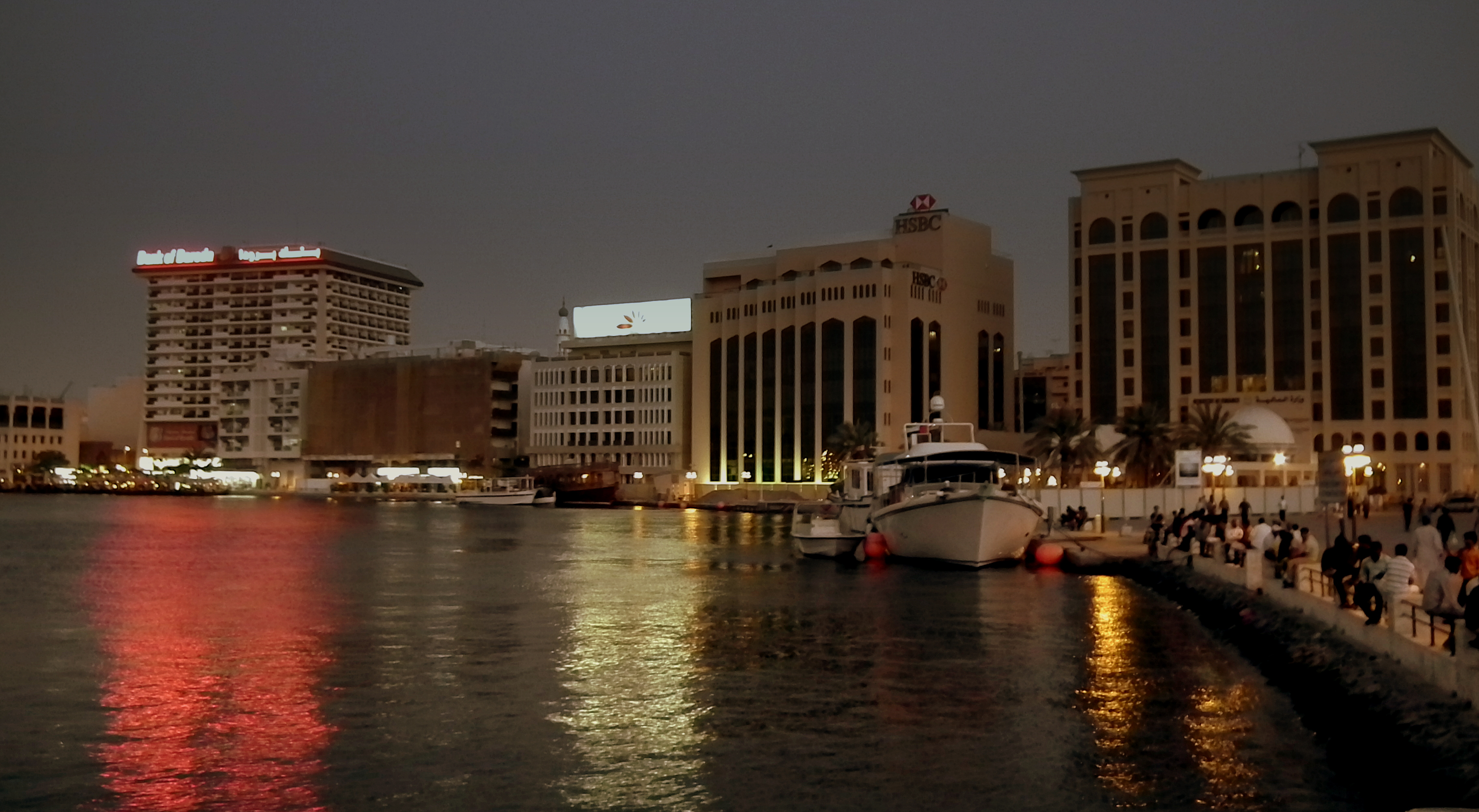 DUBAI CREEK UAE JUNE 2011